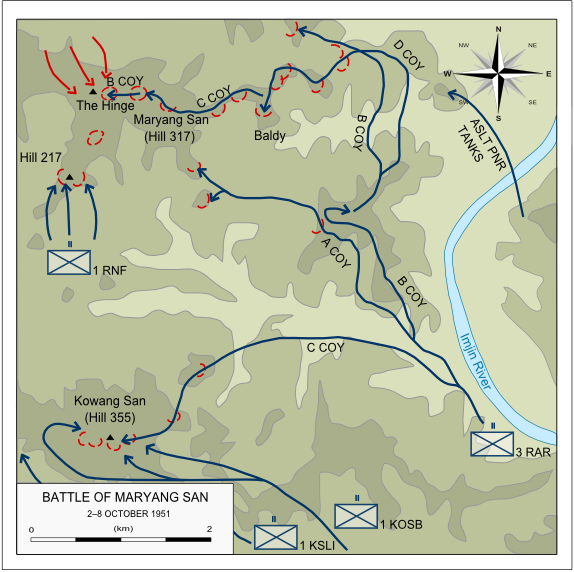 Map illustrating the Battle of Maryang San, which took place 2–8 October 1951.